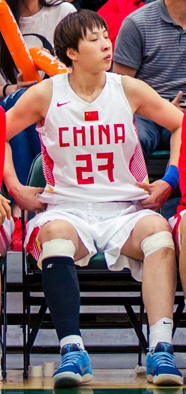 Wu Di (basketball) sitting on the bench during the 2016 Edmonton Grads International Classic series